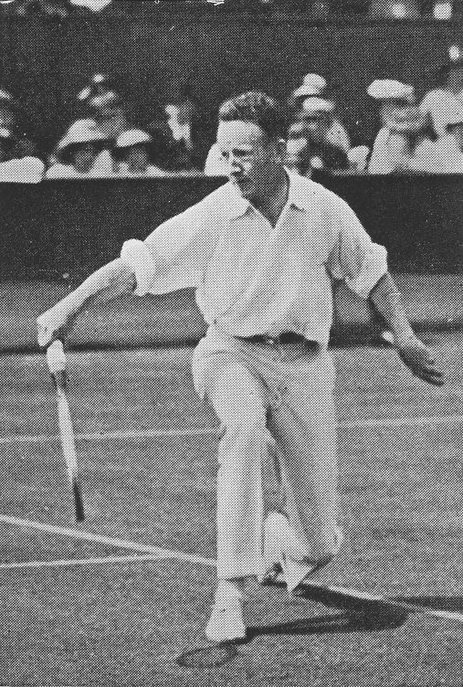 American tennis player William 'Bill' Johnston